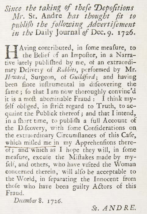 St André's advertisement of retraction in the Daily Journal of 9.12.1726 (in Hunterian Aa.7.20)